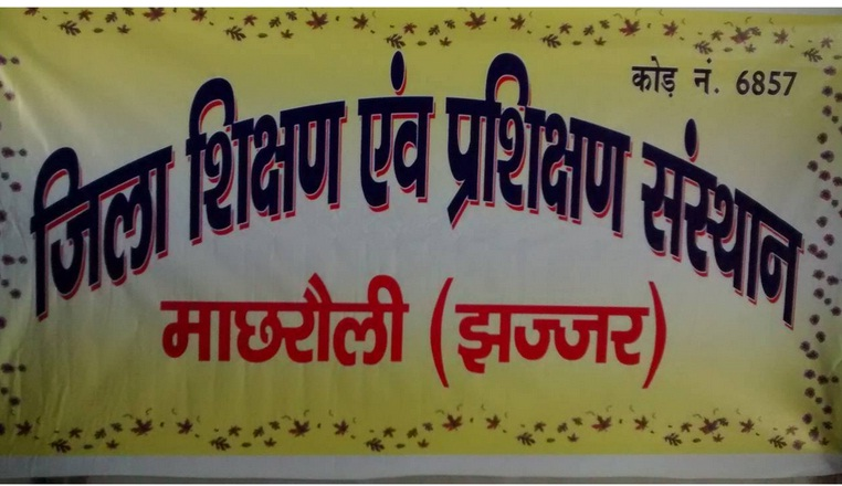 Diet machhrauli